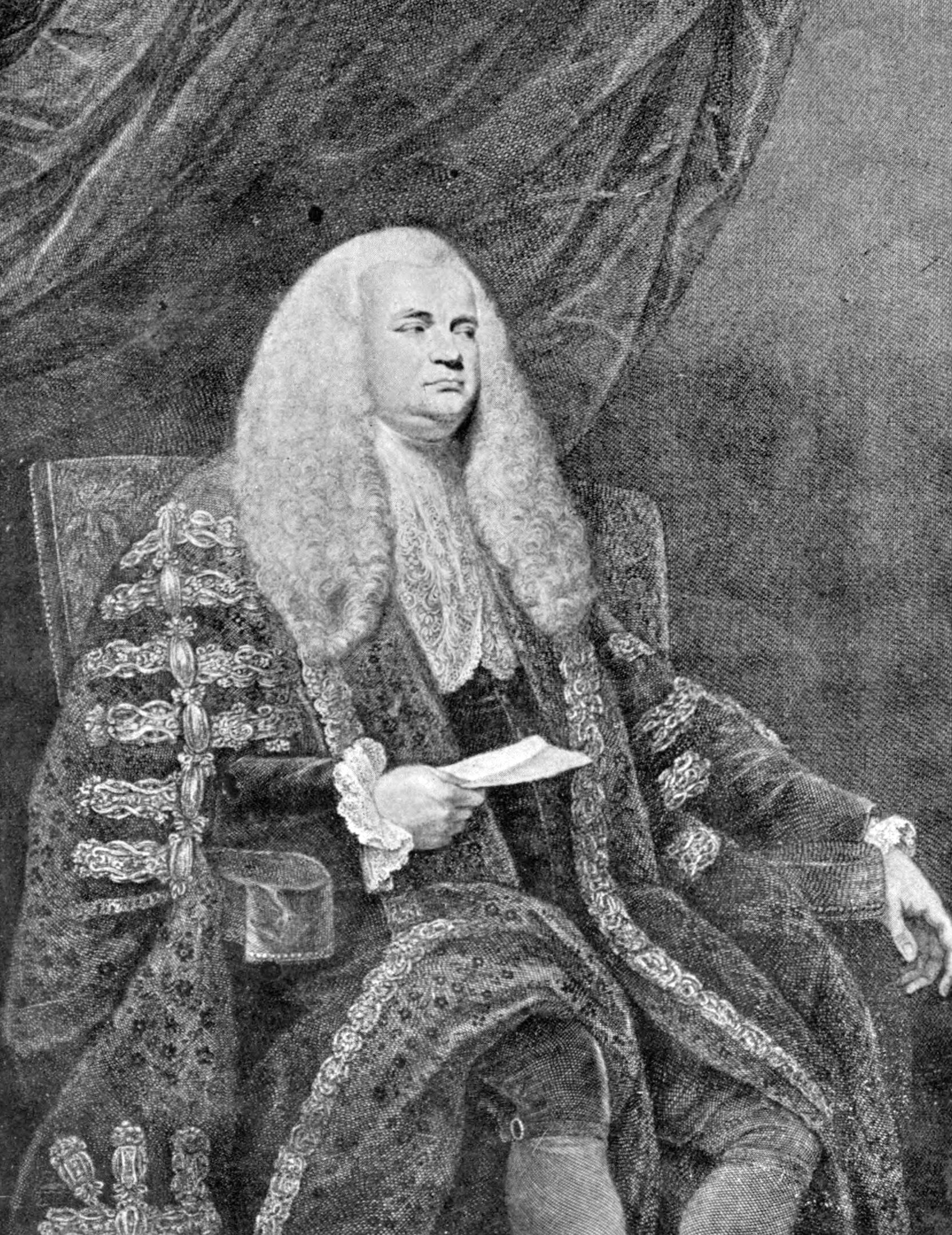 From a scanned version of Devonshire characters and strange events by Sabine Baring-Gould, published in 1908